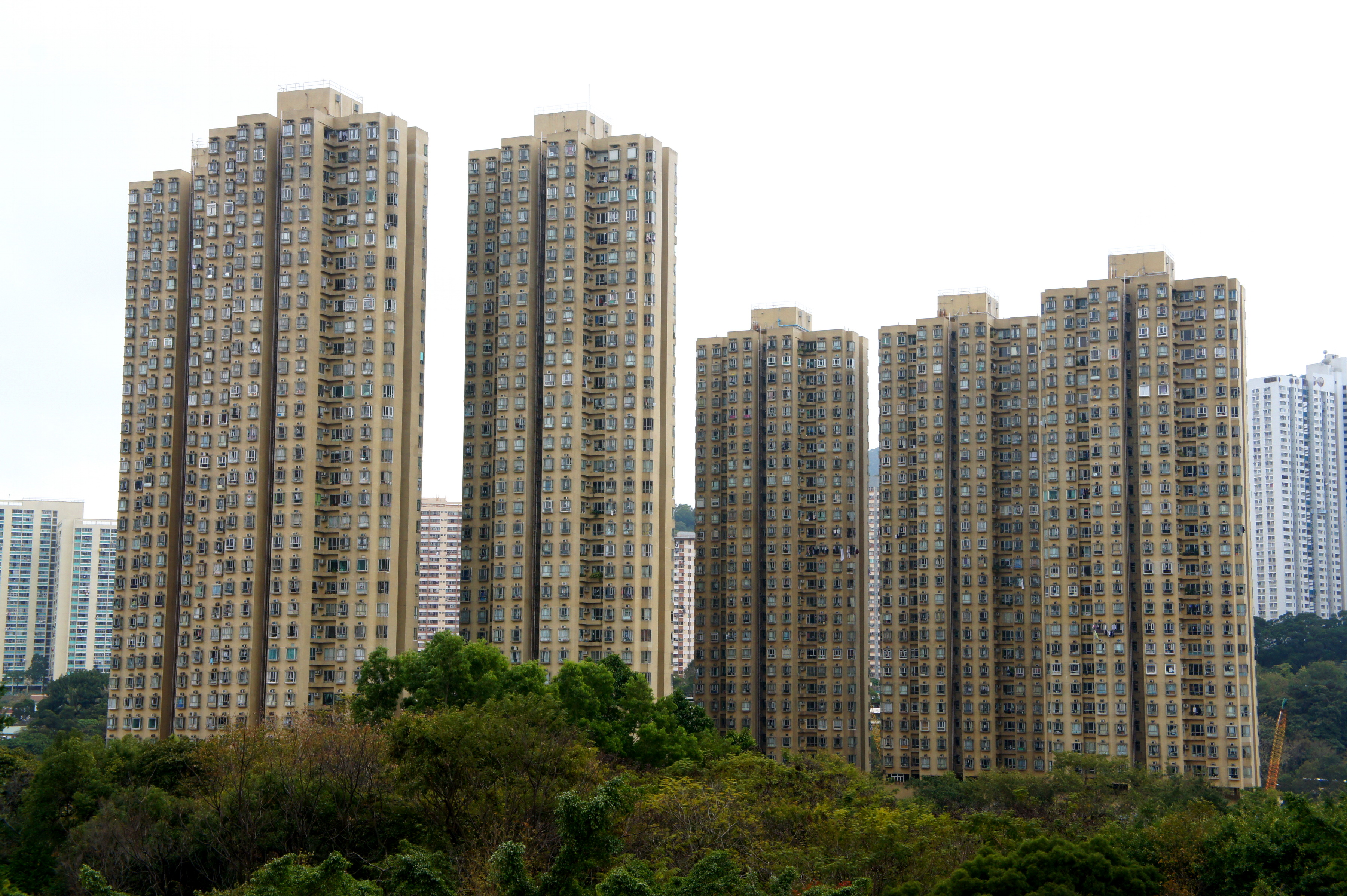 Tsing Yi Garden, Tsing Yi, Hong Kong.